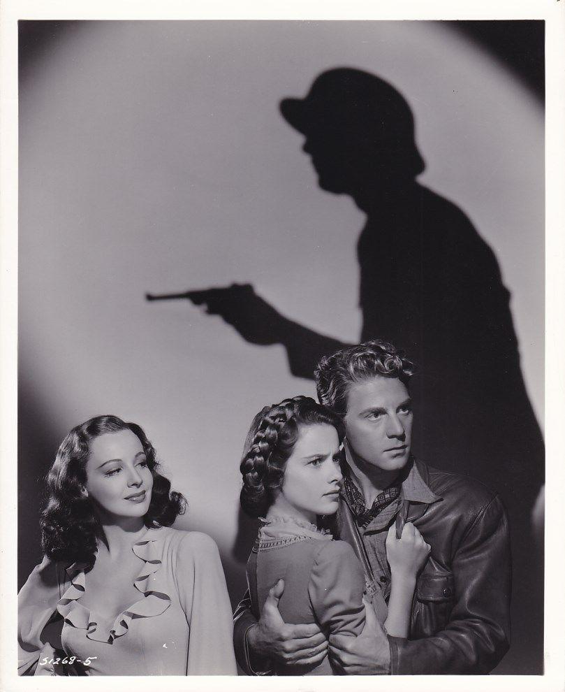 Still from Assignment in Brittany (1943). L-R: Signe Hasso, Susan Peters and Jean-Pierre Aumont